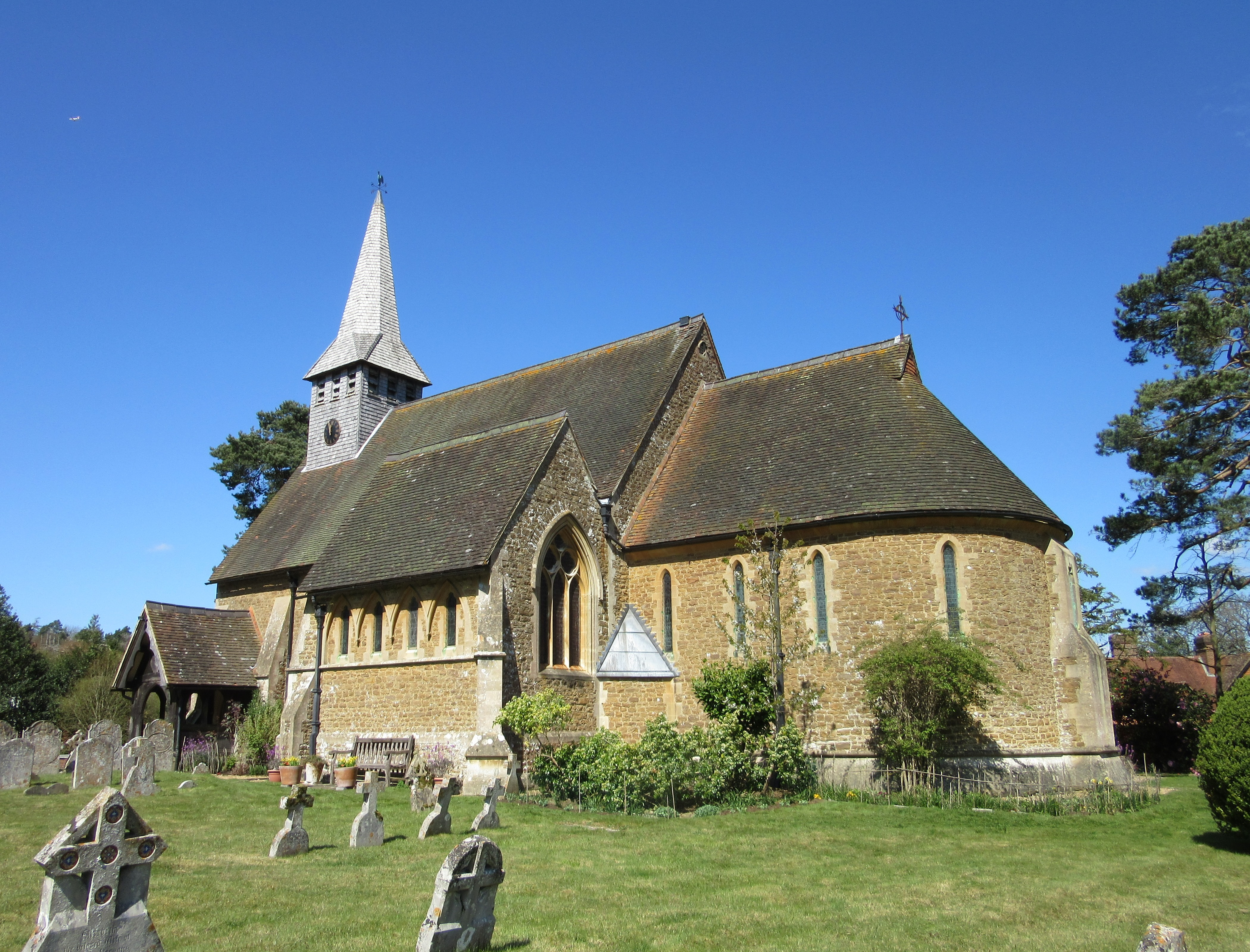 St Peter's Church, School Lane, Hascombe, Borough of Waverley, Surrey, England.